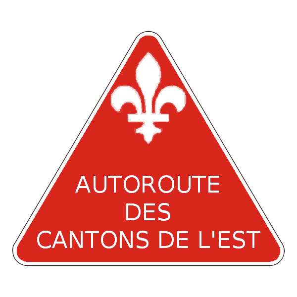 Old shield for the Eastern Township autoroute.